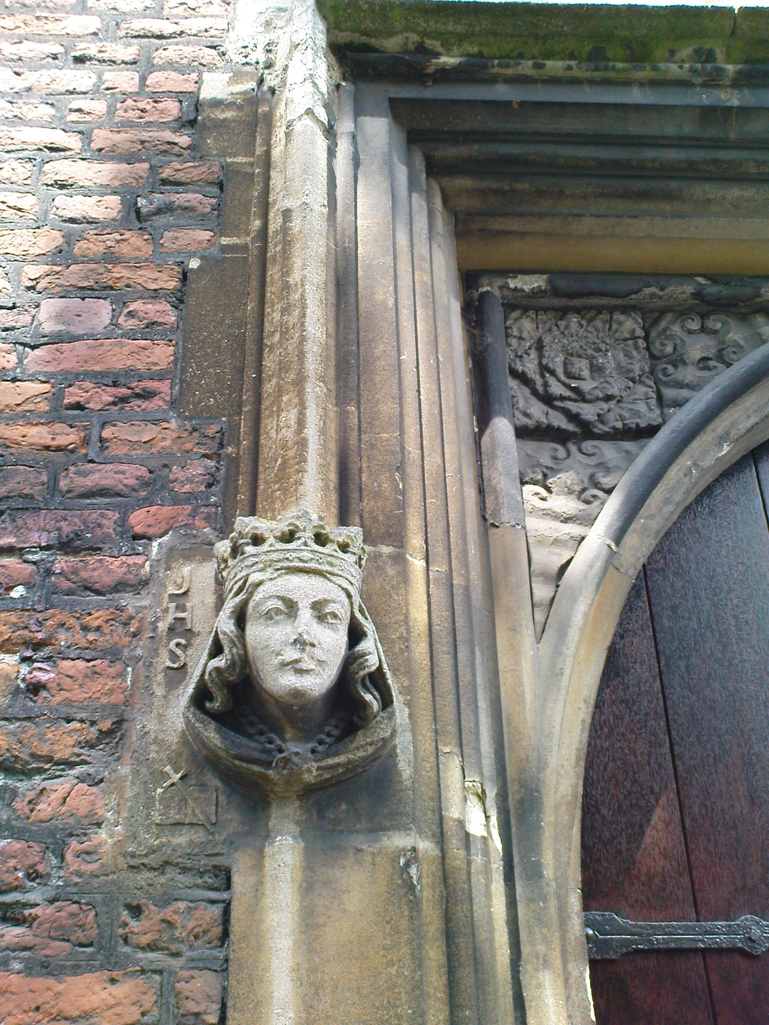 All Hallows Church in Tottenham